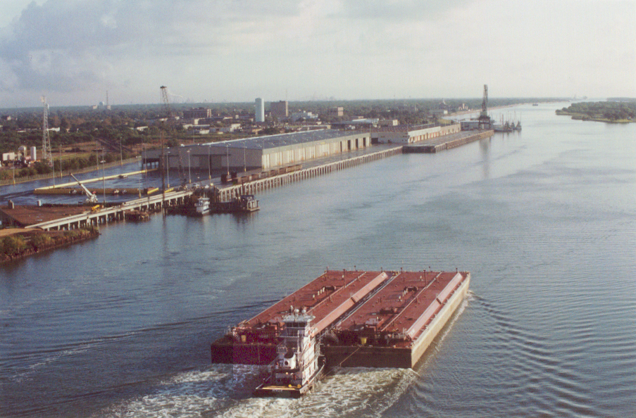 This a view of the Port of Port Arthur, Texas, taken from the MLK Bridge.